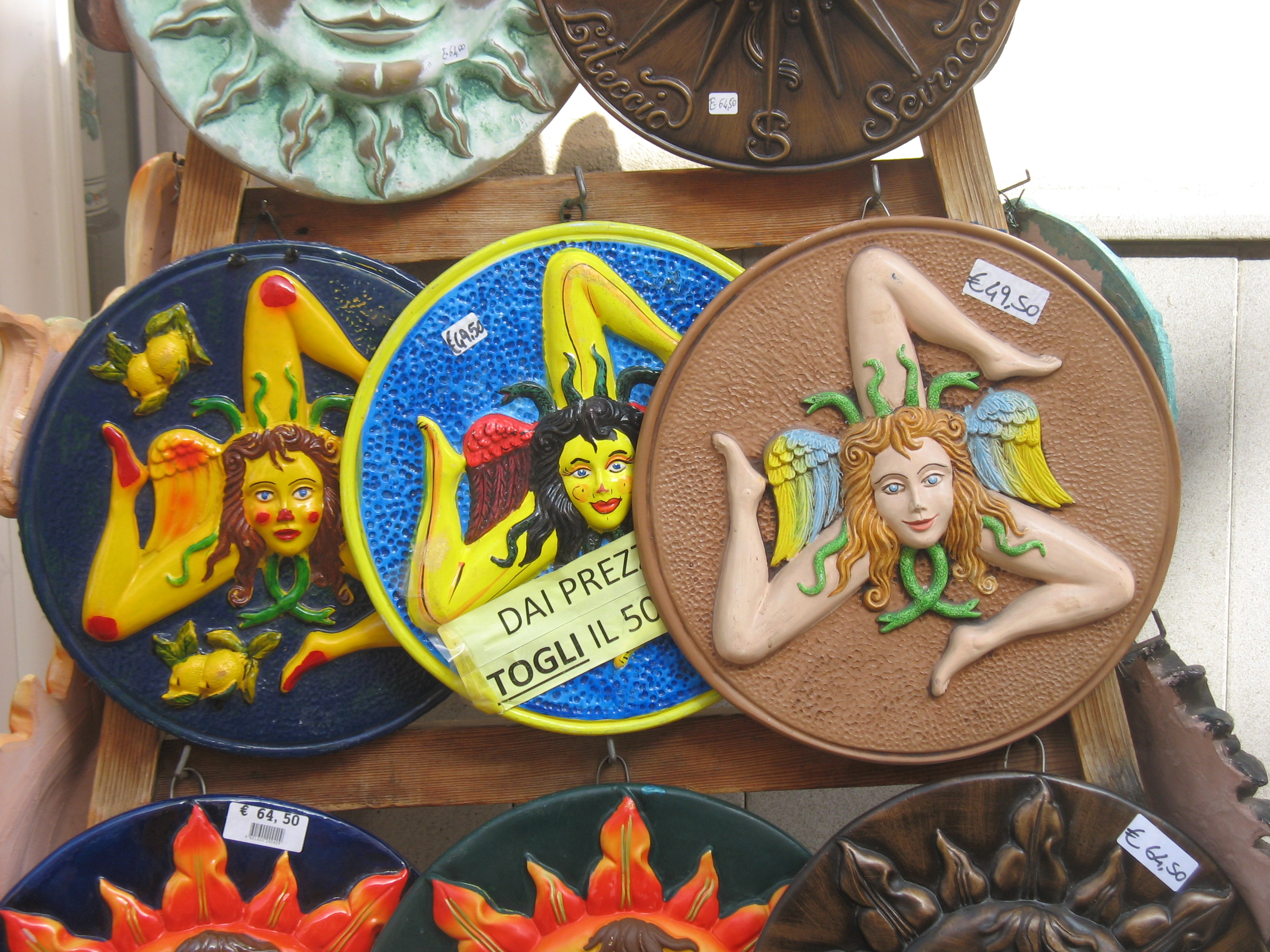 the triskelion symbol of Sicily